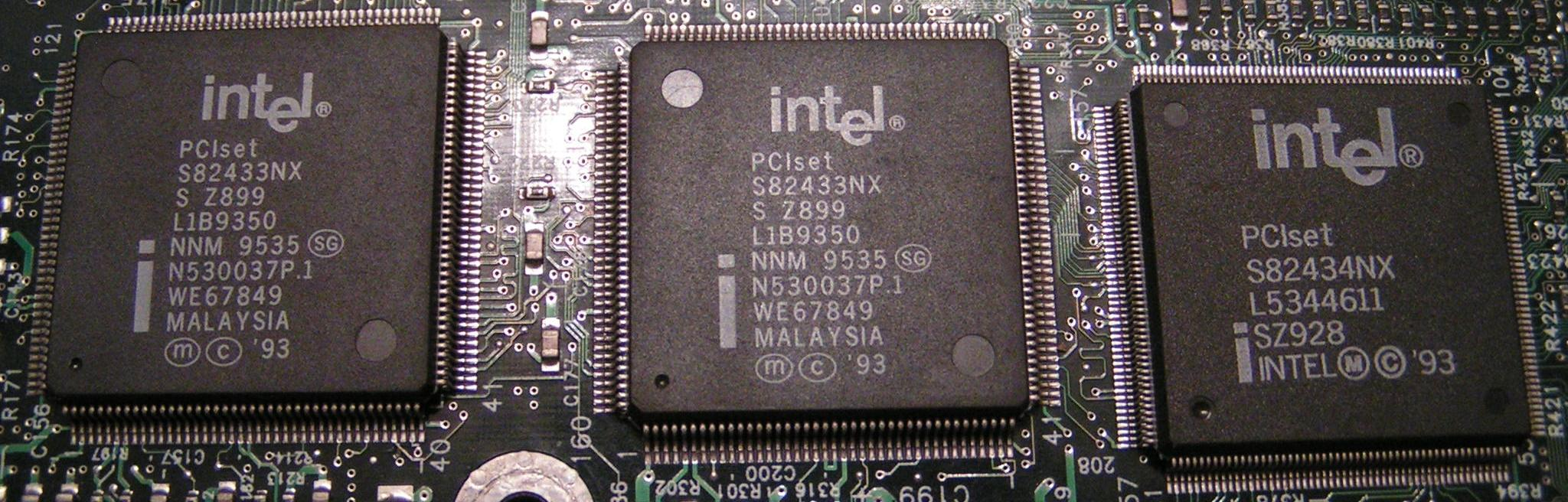 S82433NX and S82434NX